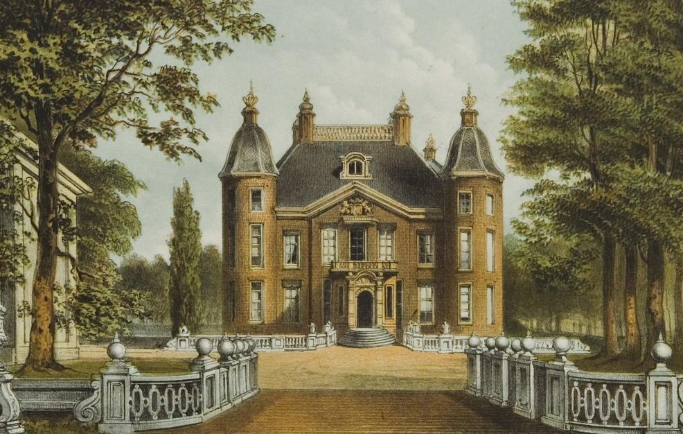 Castle Biljoen at Velp, Netherlands